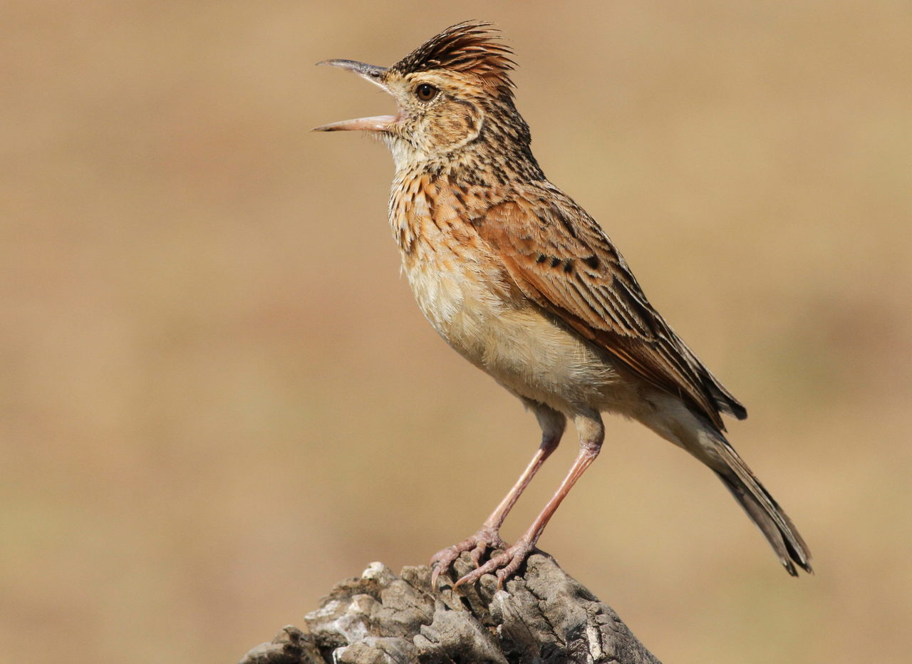 Rufous-naped lark at Pilanesberg National Park, South Africa